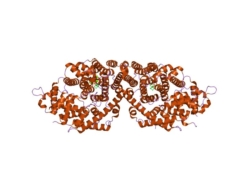 Cartoon representation of the molecular structure of protein registered with 1n24 code.